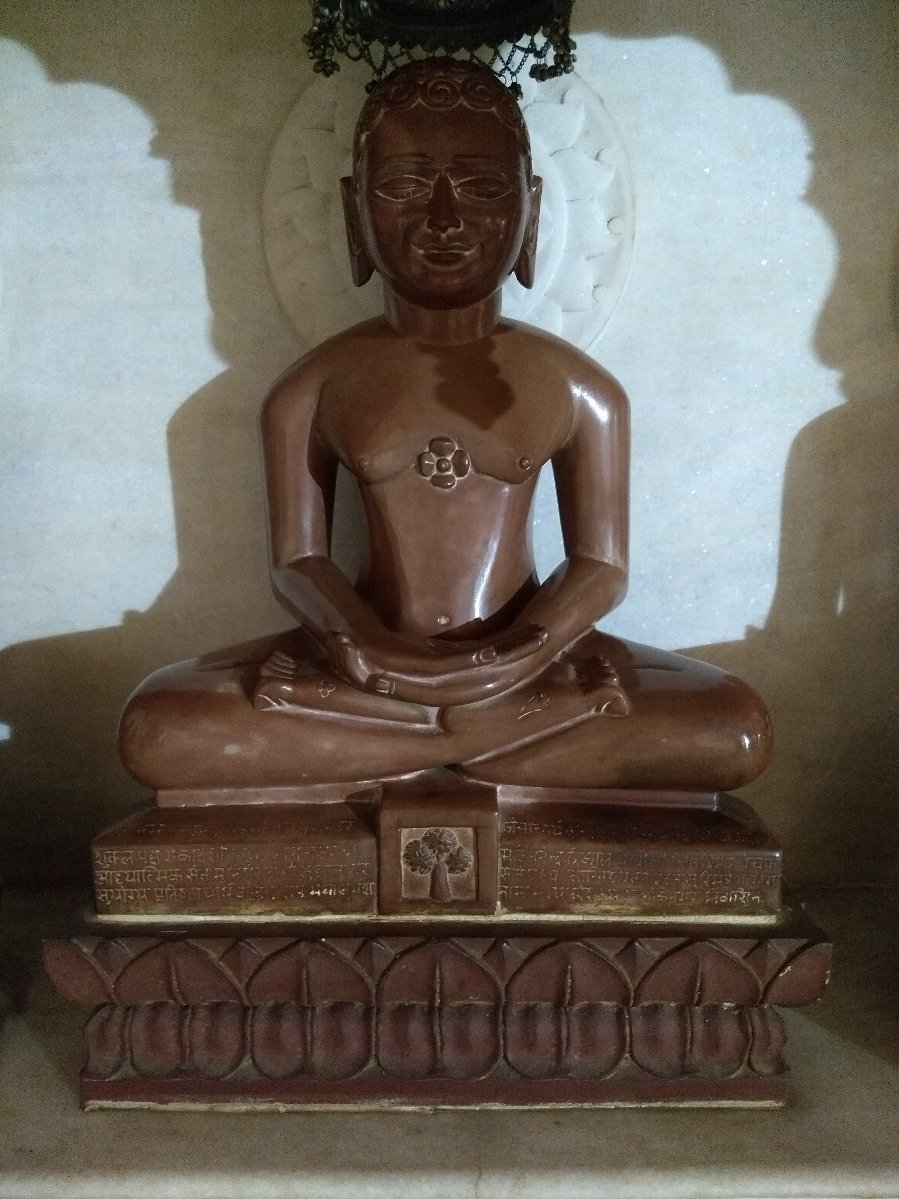 Jain statues in Anwa, Rajasthan